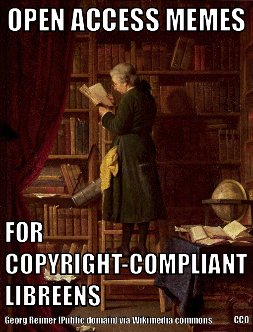 One of the few internet memes that is legal to share in countries with fair dealing laws. As of 2020, it's surprisingly difficult to find any meme that is able to comply with the strict copyright laws of countries such as the UK, Australia and India